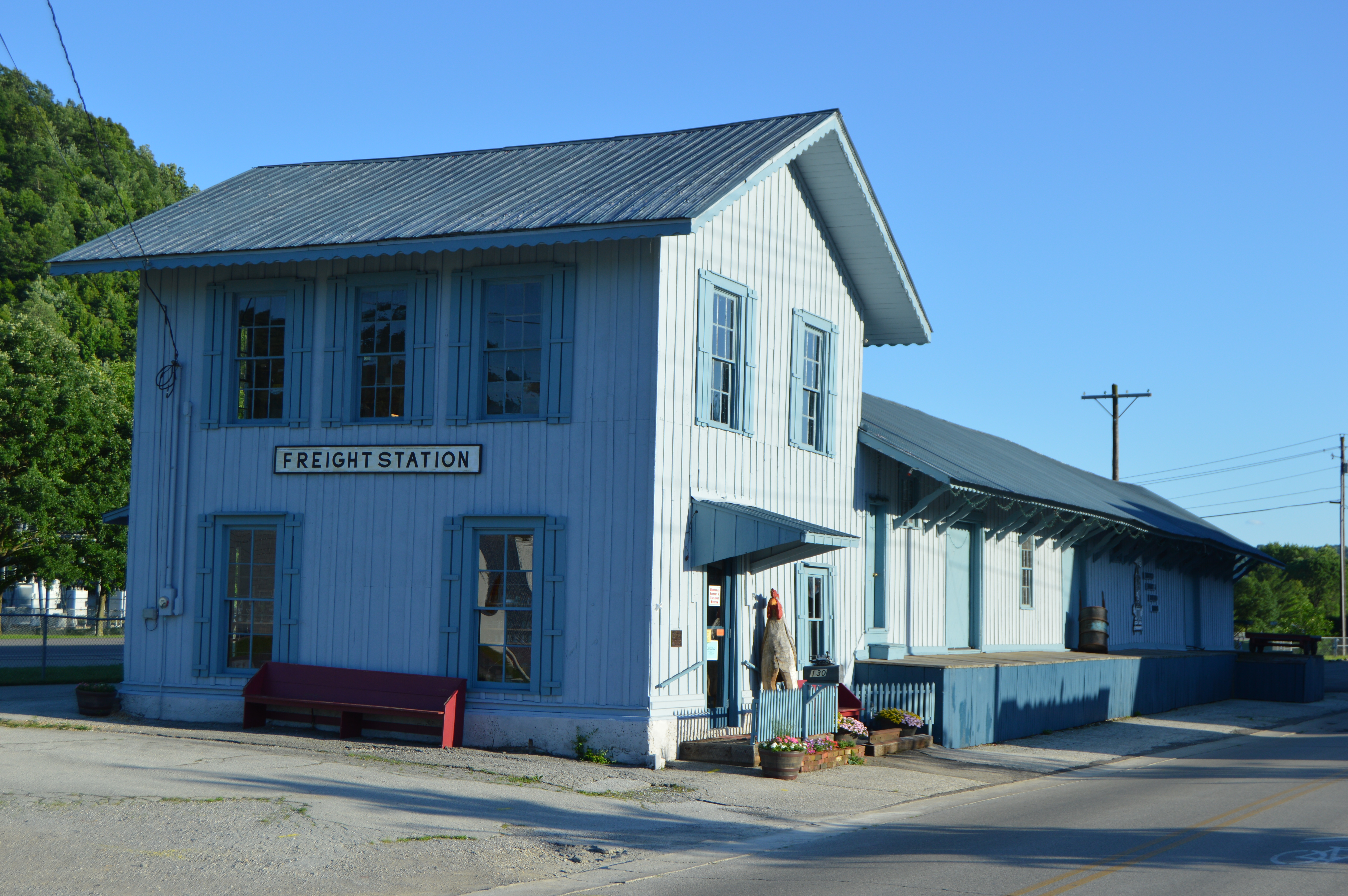 Northern end and western side of the Morehead Chesapeake and Ohio Railway Freight Depot, located at 130 E. First Street in Morehead, Kentucky, United States. Built in 1881 for the Elizabethtown, Lexington and Big Sandy Railroad, it is listed on the National Register of Historic Places.